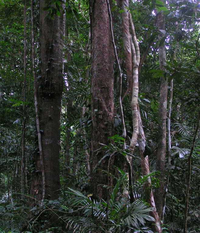 Daintree Rainforest. Photo taken June 2005. Uploaded with permission.